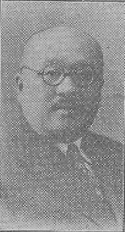 Jin Ronggui (Chin Jung-kui) (1876 - ?)